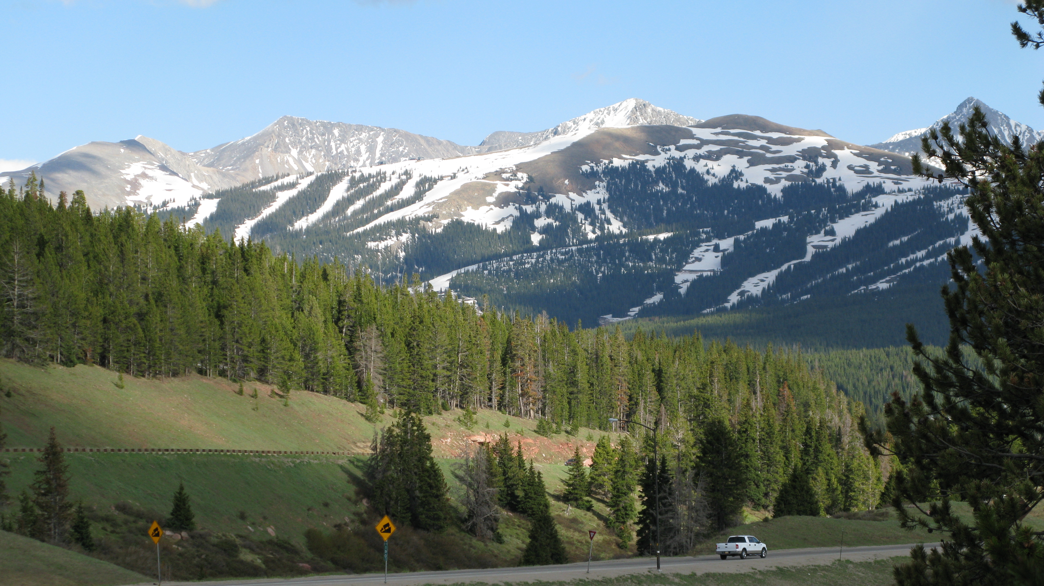 Taken from the rest stop at Vail Pass, just off I-70.